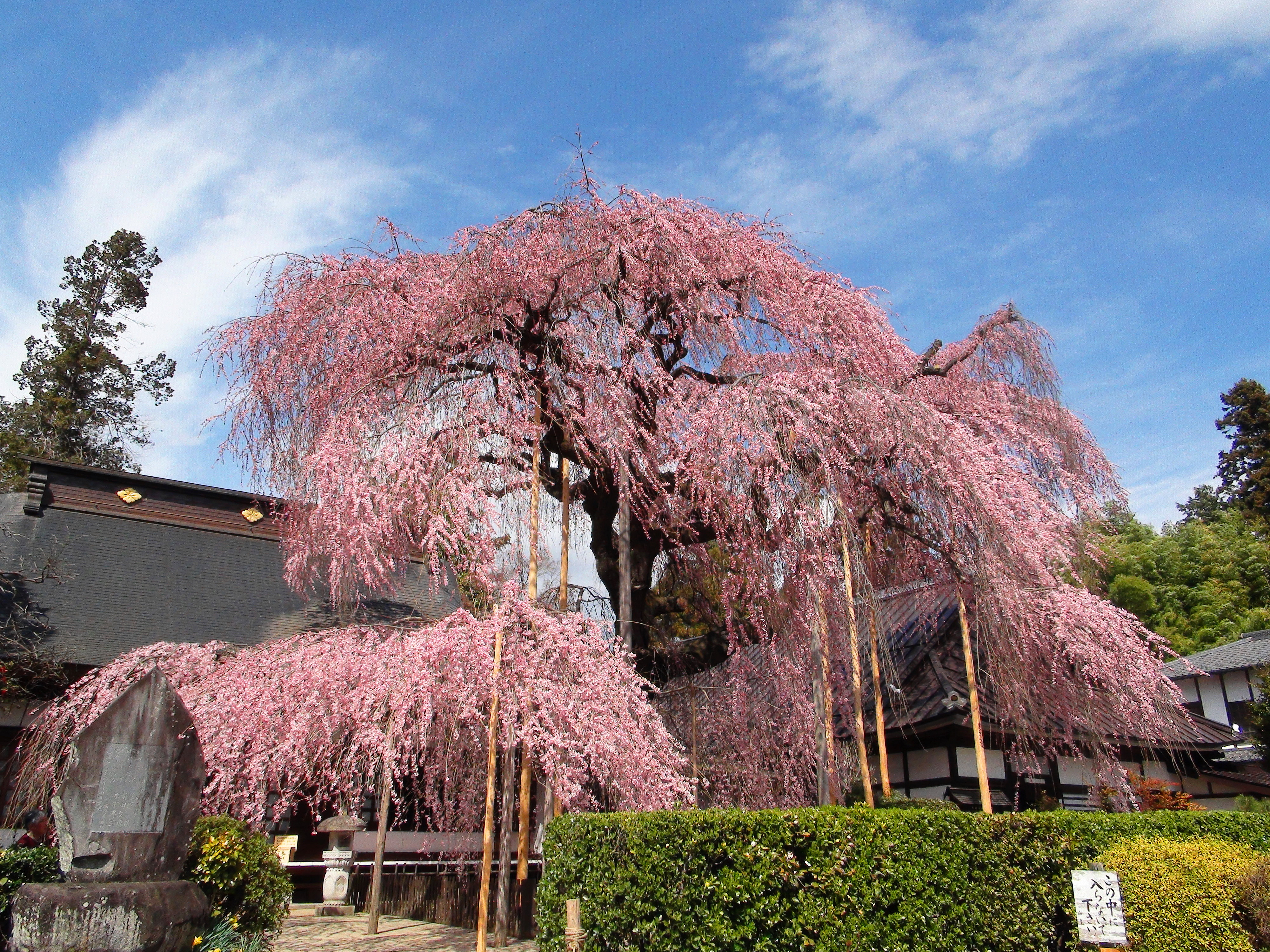 The front of Jiunji-Temple Prunus pendula